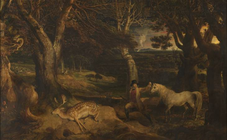 "The Deer Stealer," by the British artist James Ward. Exhibited 1823 and commissioned by Ward patron Theophilus Levett for 500 guineas. Oil on canvas. 2289 mm x 3664 mm. Courtesy of the collection of the Tate Britain.